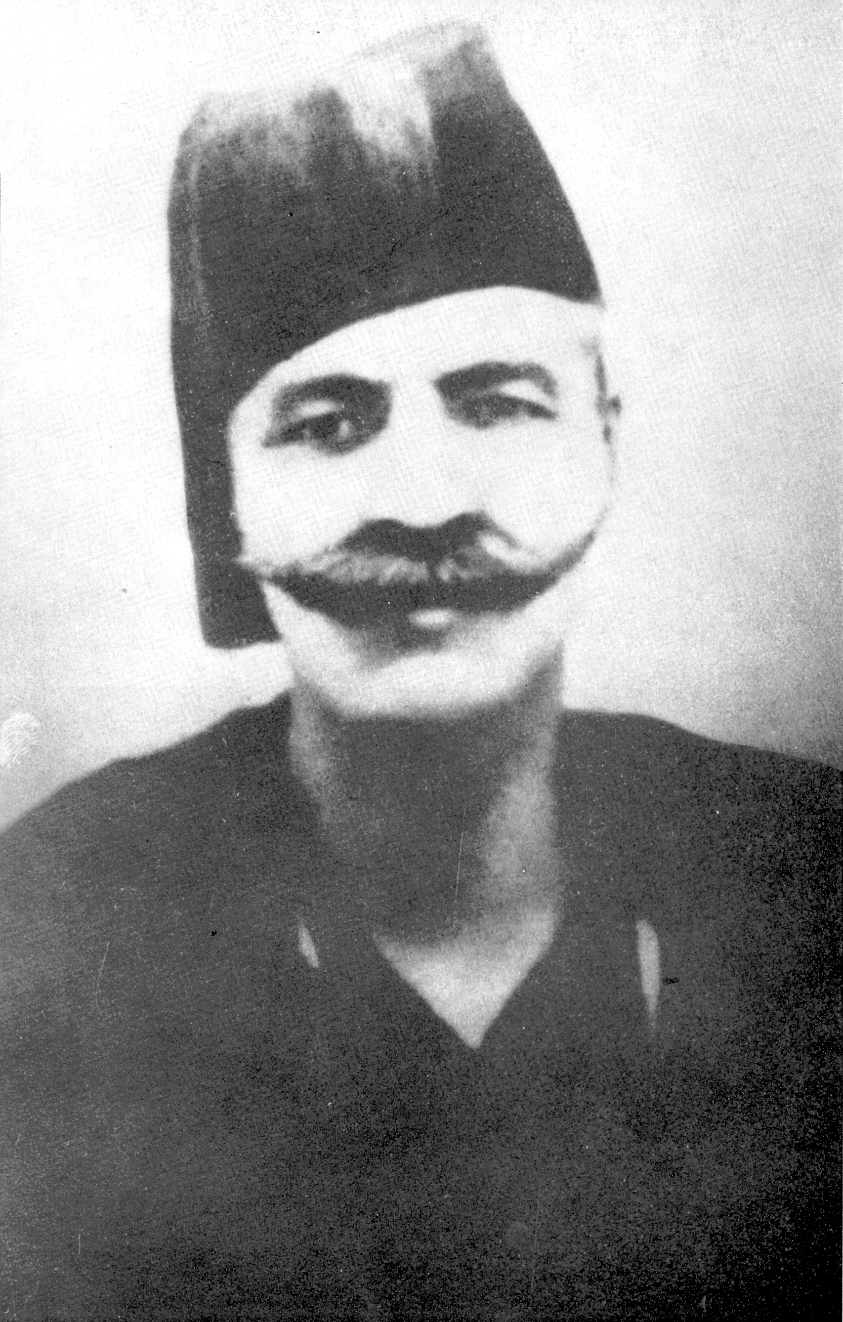 Nikola Delchev (1844-1920), father of Gotse Delchev